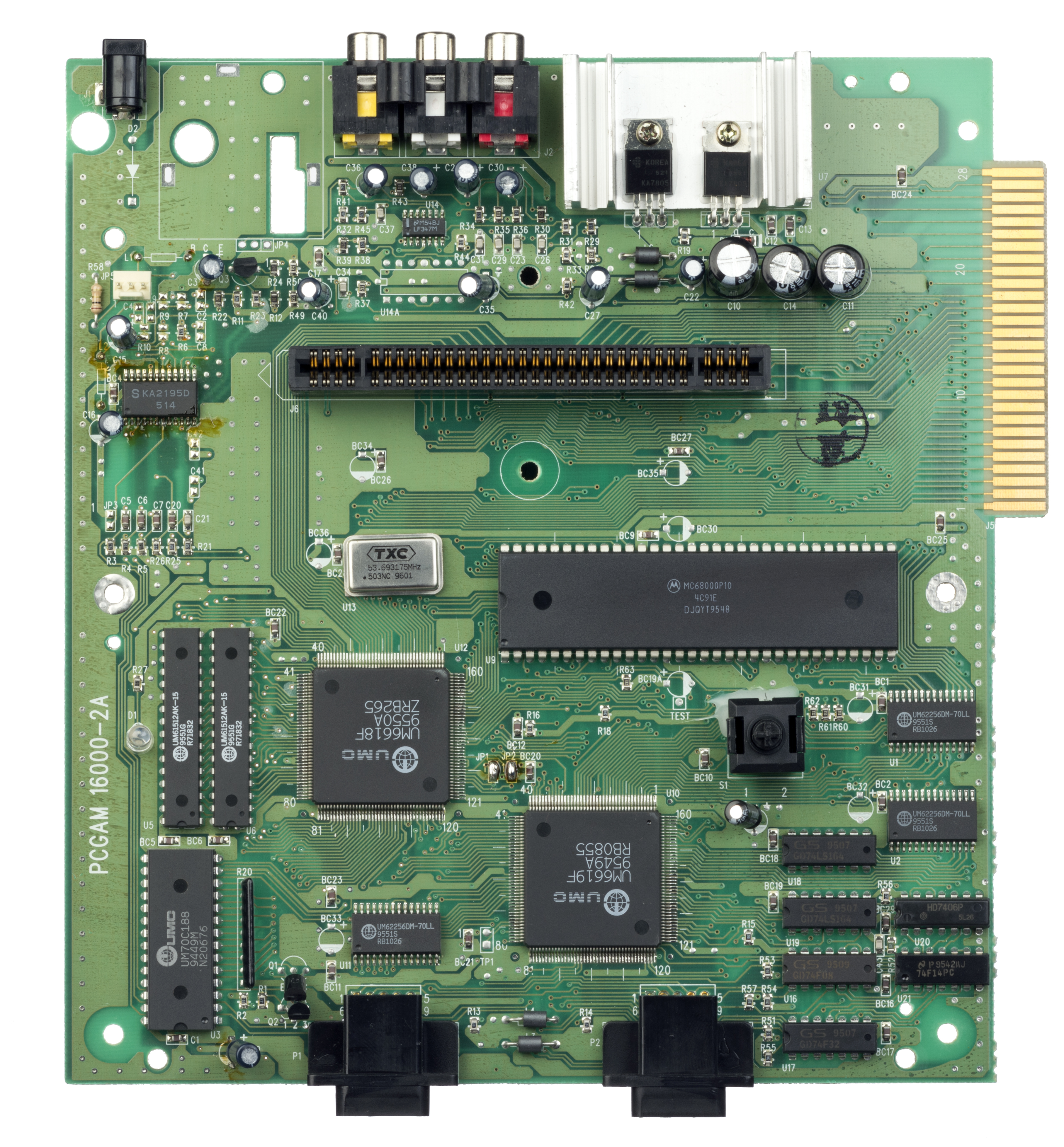 The bare motherboard of a Funtech Super A'can gaming console. Released in 1995, the Super A'can was only available in Taiwan where it performed poorly. This motherboard photo shows how it was made from off-the-shelf components, with a Motorola 68000 CPU running at 10MHz. The console uses standard audio/video (composite/stereo) hookups and is powered by an external DC adapter. The controller ports are standard DE-9, the same seen in early Atari/Commodore/Sega consoles. The console contains a side expansion port, very similar to the Sega Genesis, though no add-ons were ever released for it.